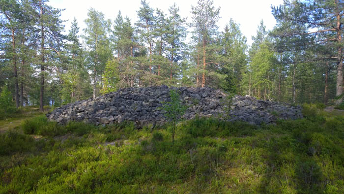 En gravröse vid den lilla idylliska Mjösjön